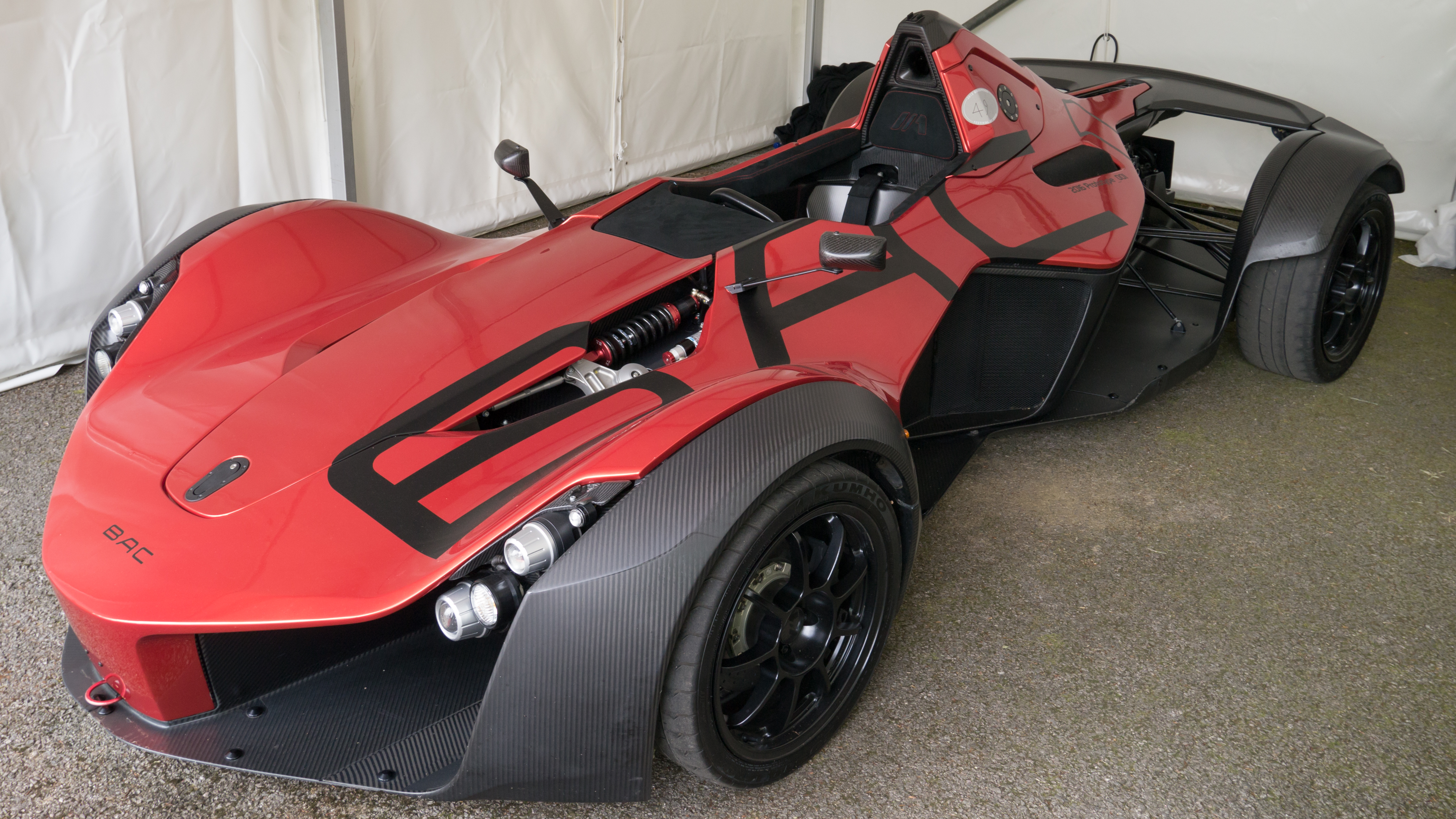 now with 305 bhp from Mountune and only 580 kg